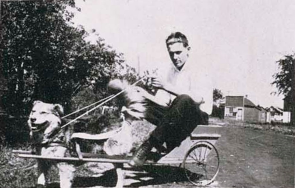 From the 1918–1919 Sturgeon Bay High School yearbook, caption reads "Mutt and Jeff / A Fast One." The date July 1, 1918 appears below this picture, but it (along with the phrase "A fast one") may or may not refer to this photo as there were multiple photos on the page. Elsewhere in the yearbook, it states that [Due to the Spanish Influenza of 1918] the school year had been broken up due to an enforced vacation of 11 weeks.